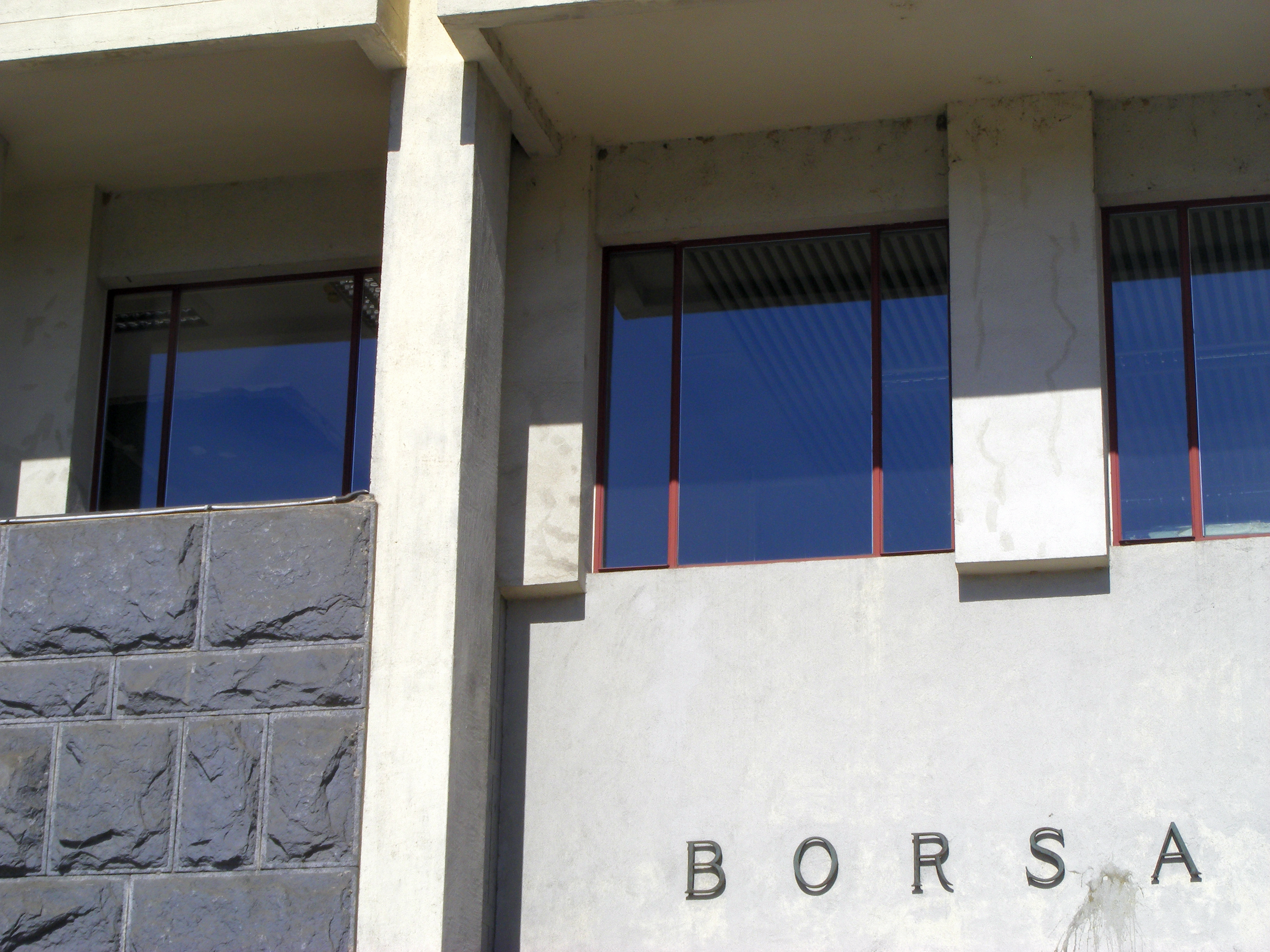 Turin Stock Exchange palace (designed by Gabetti & Isola): facade detail